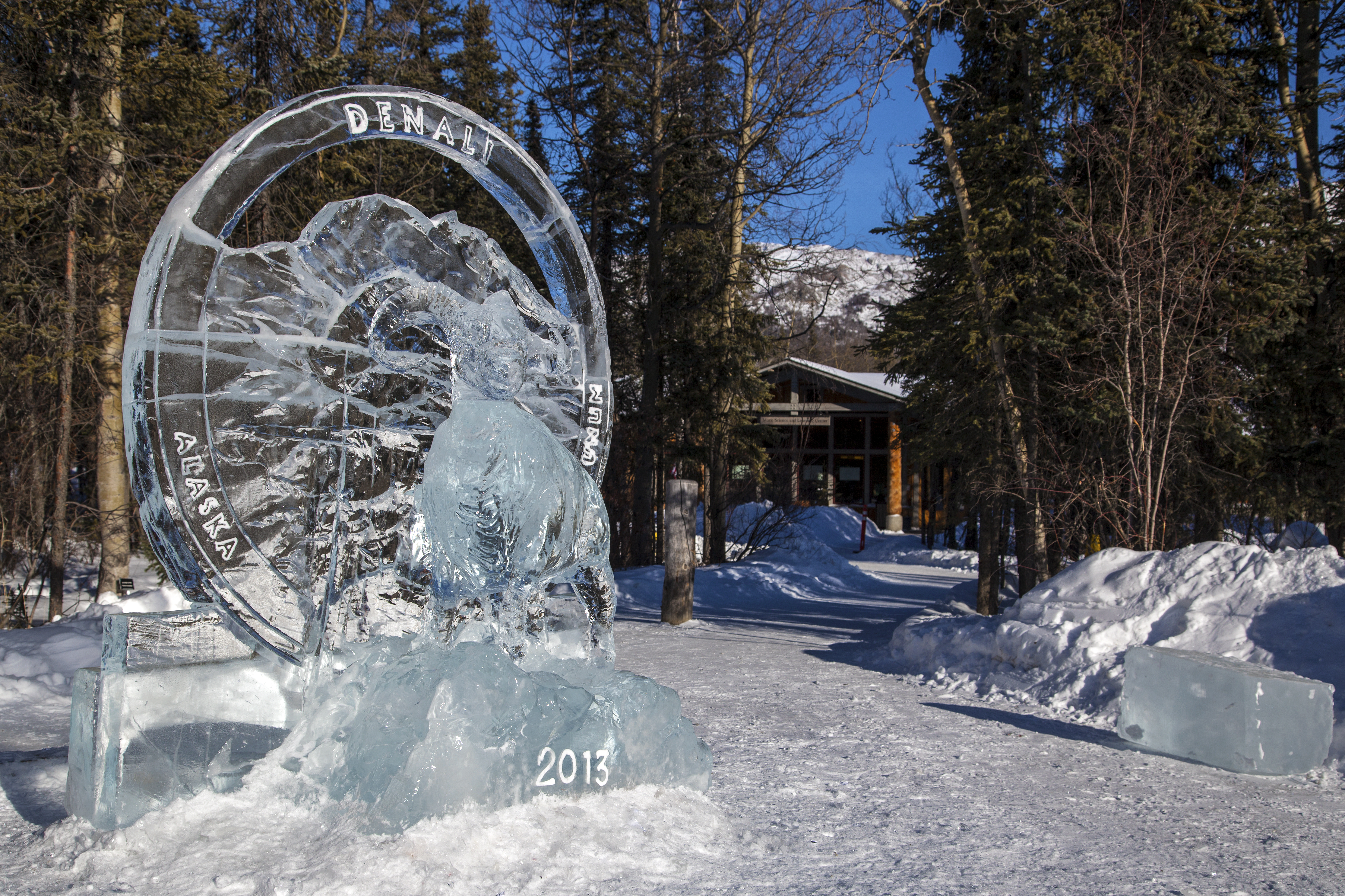 An ice sculpture carved by Larry Moen and Corine Olson near the entrance of the Murie Science and Learning Center. It is a three dimensional representation of the Denali quarter. (NPS Photo/Daniel A. Leifheit)